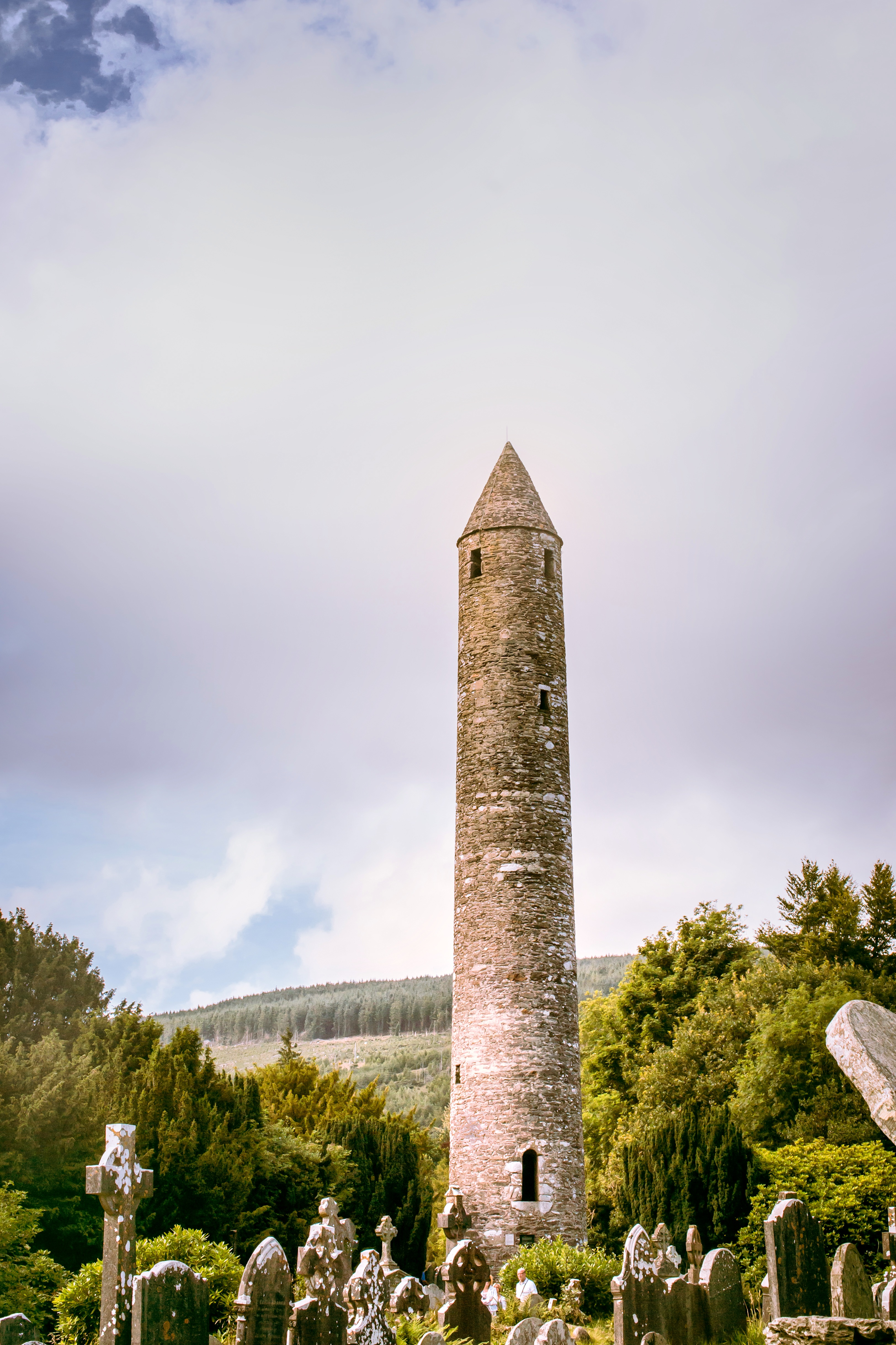 The Round Tower at Glendalough, Co. Wicklow, Ireland 2012